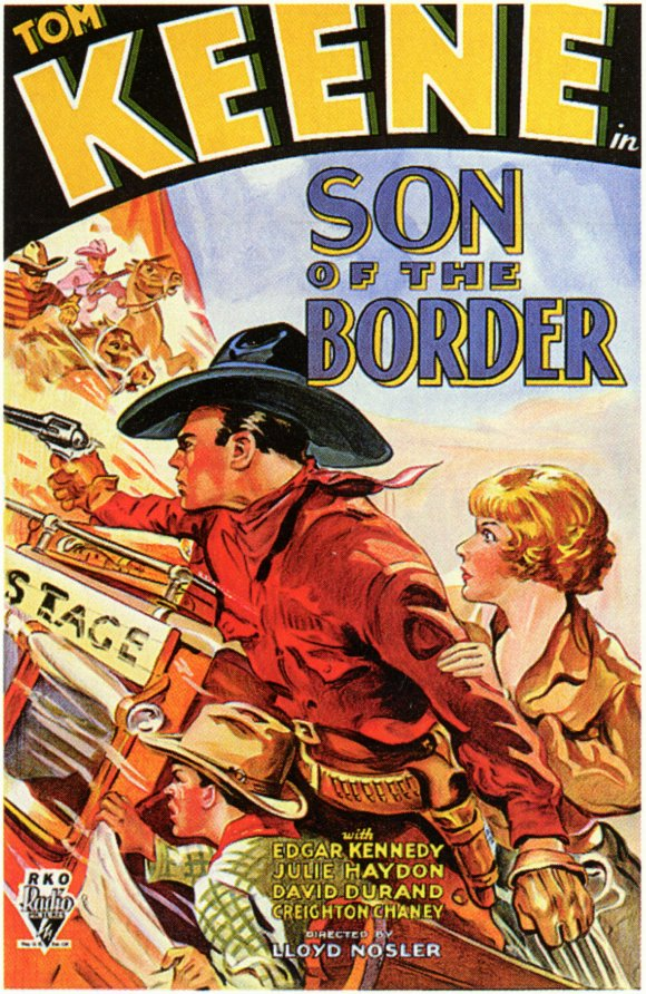 promotional poster for the american western Son of the Border